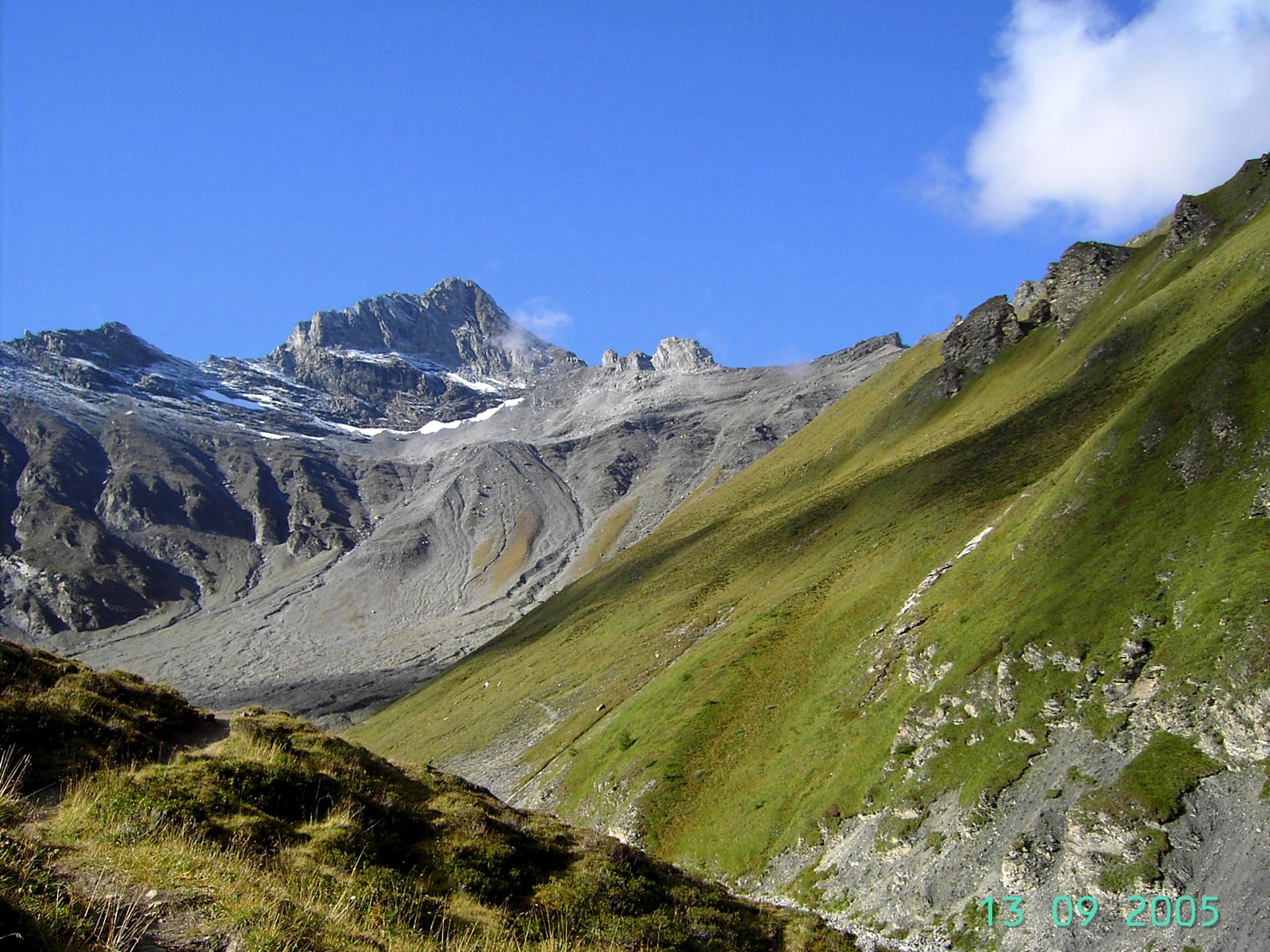 Stammerspitz (3254m), 2nd highest mountain of Samnaun alps